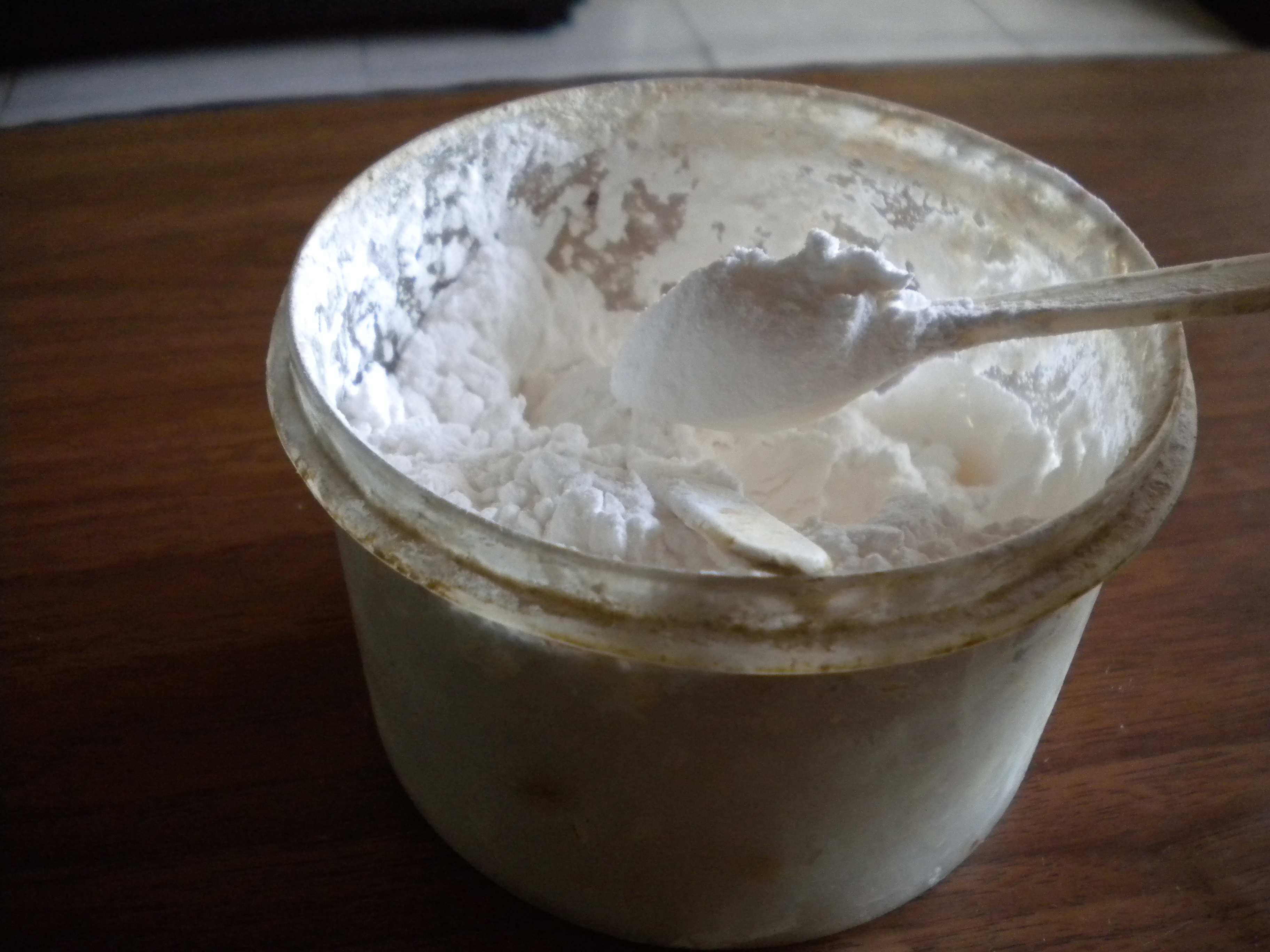 Potato Starch's photo